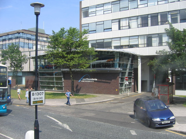 Northumbria University on Sandyford Road. New entrance to this building which leads to the art block.